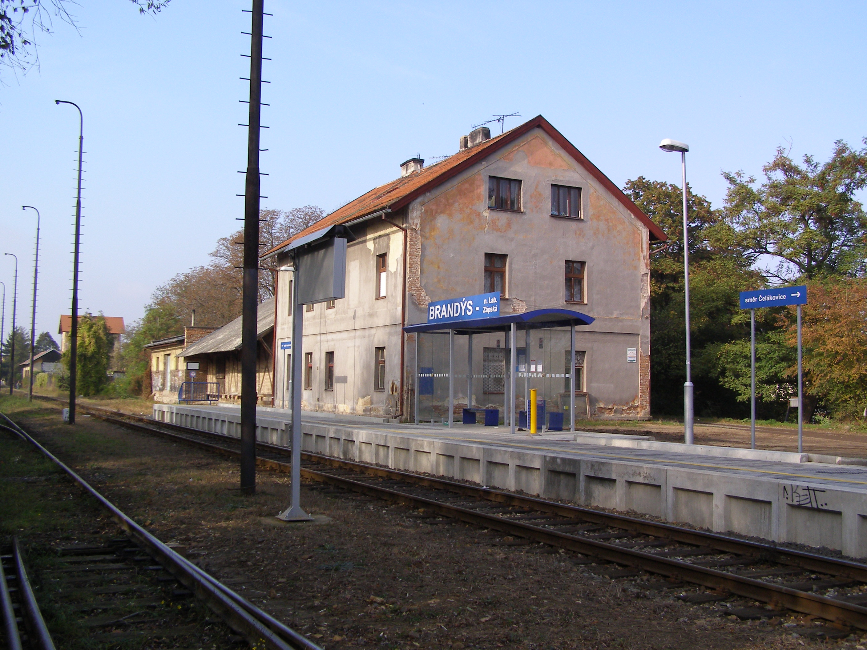 rail station - Brandys nad Labem-Zapska